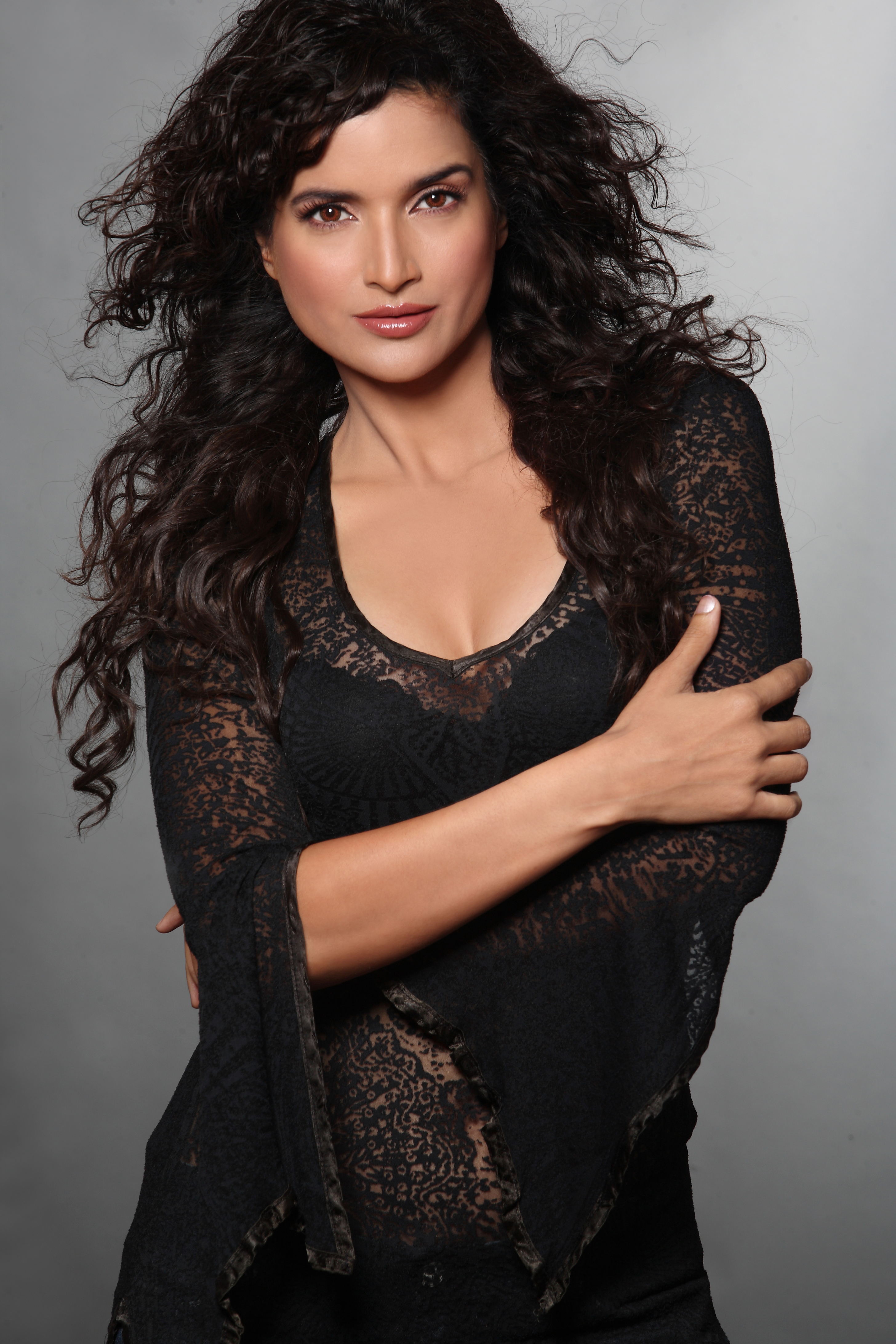 Sushama Reddy Indian actor and a television presenter, in a black dress